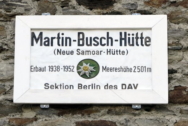 Alpine Hut "Martin-Busch-Hütte" in the Ötztal Alps